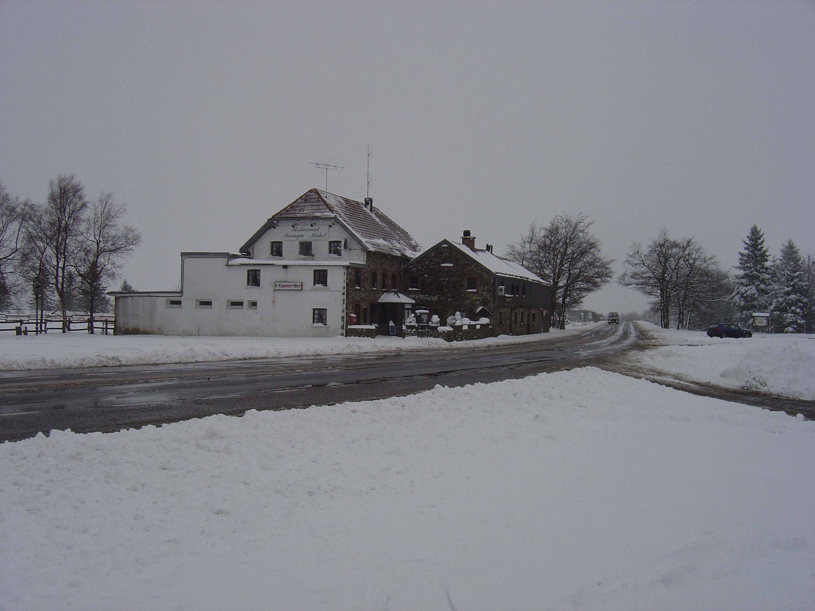 Baraque Michel, the second highest location in Belgium.